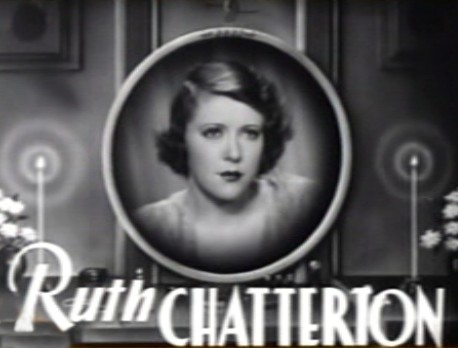 Cropped screenshot of Ruth Chatterton from the trailer for the film Female.